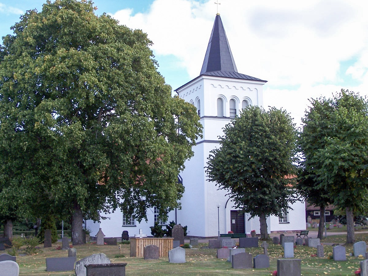 Påskallavik church, Sweden